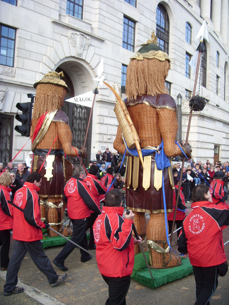 Lord Mayor show 2007